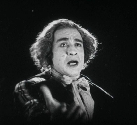 Monte Blue as 'Danton' in Orphans of the Storm (1921).